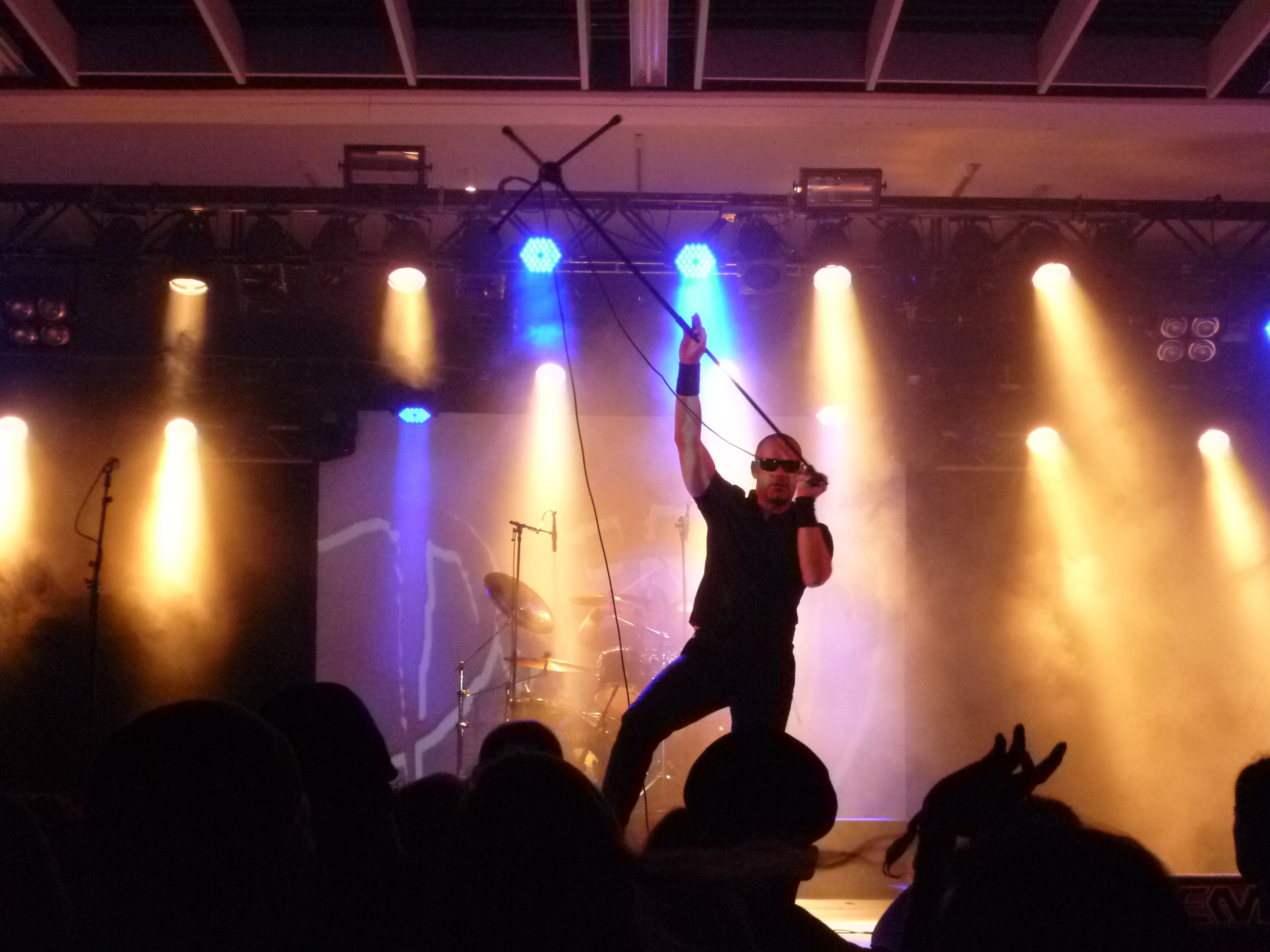 Deutscher W. live with Der Fluch at the Amphi Festival 2011 in Cologne